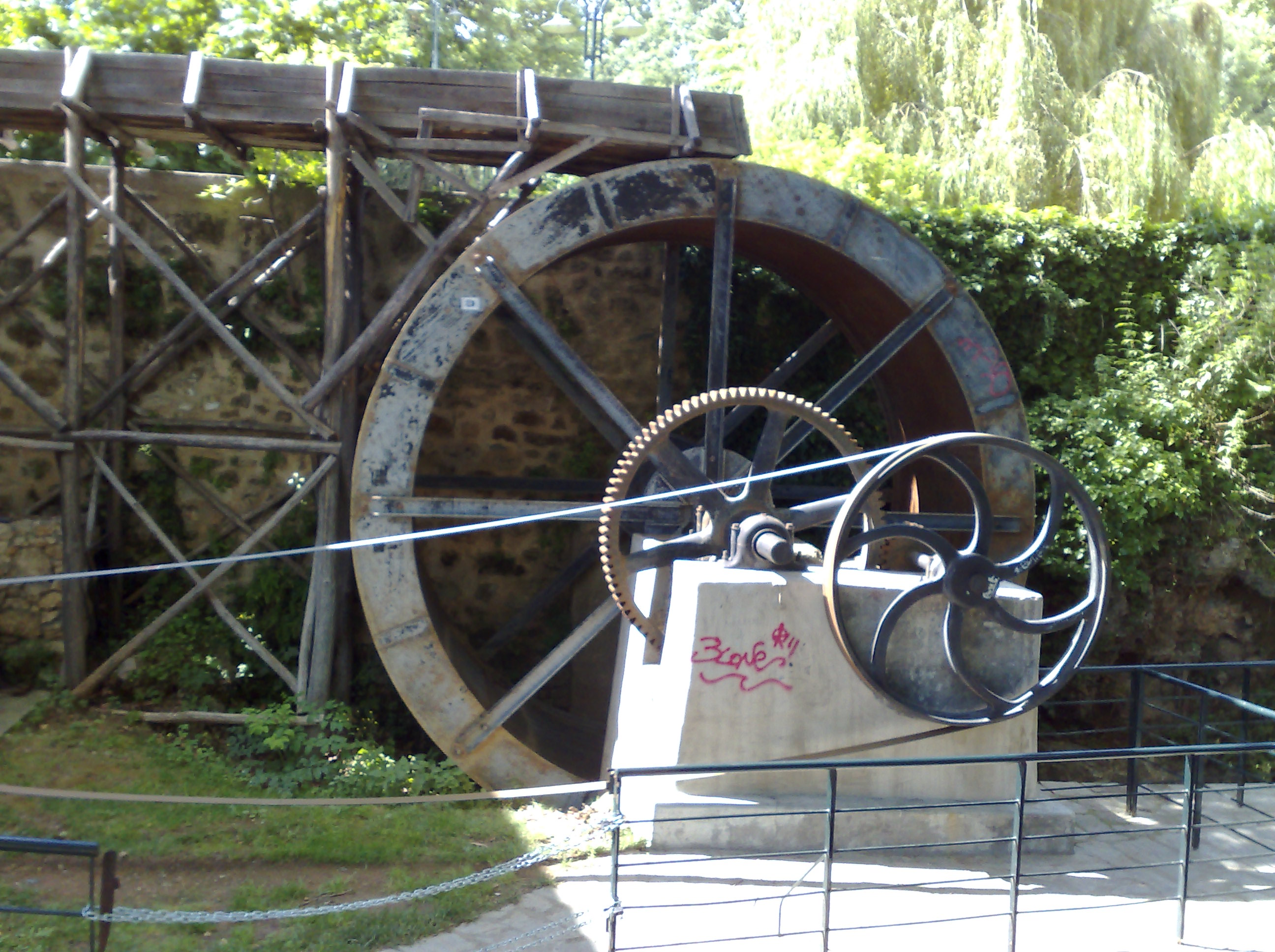 Watermill at the city of Edessa, Pella prefecture, Greece.